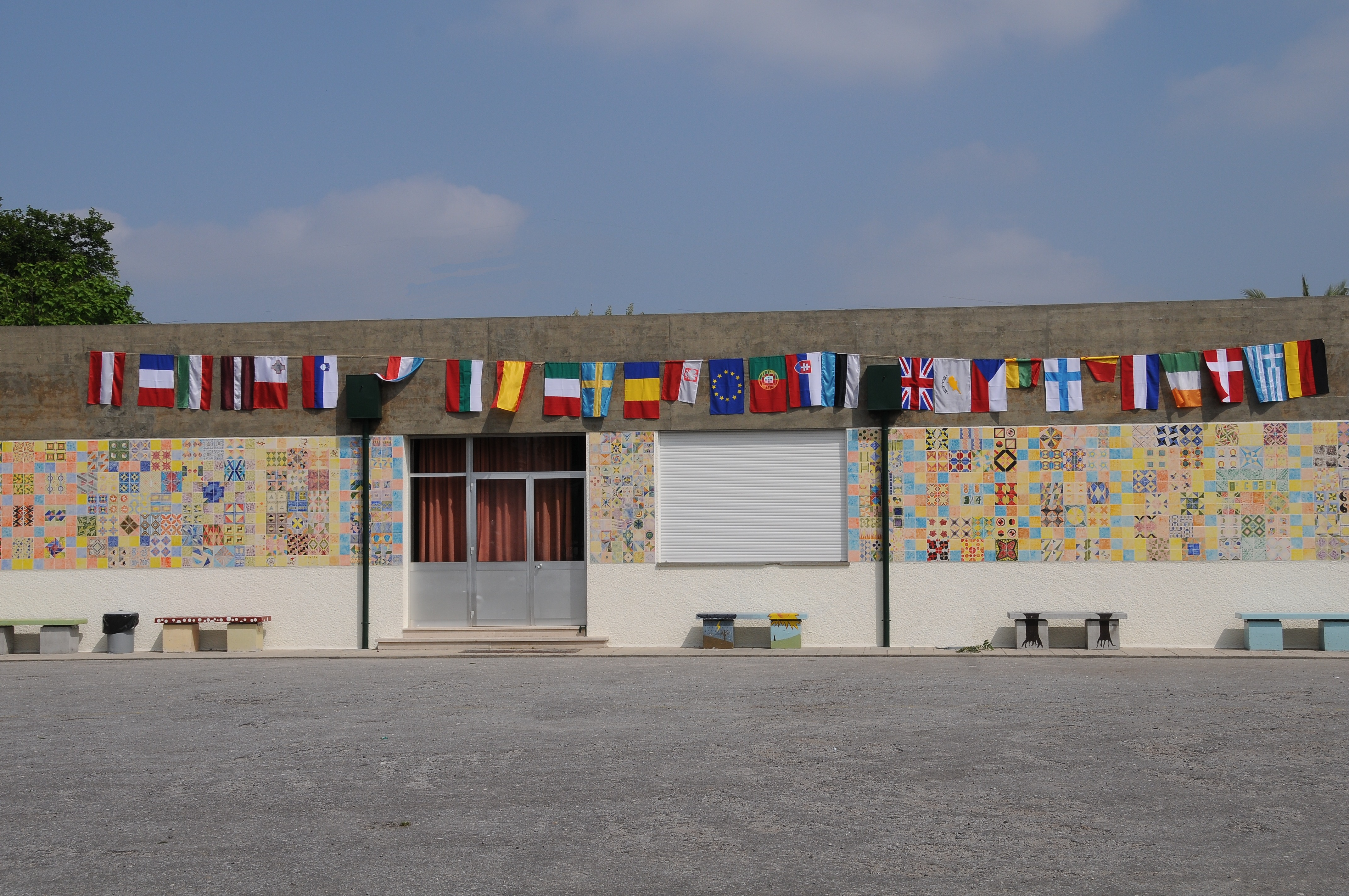 Palmeira School in Palmeira, Braga, Portugal, decorated with flags for the Europe Day.